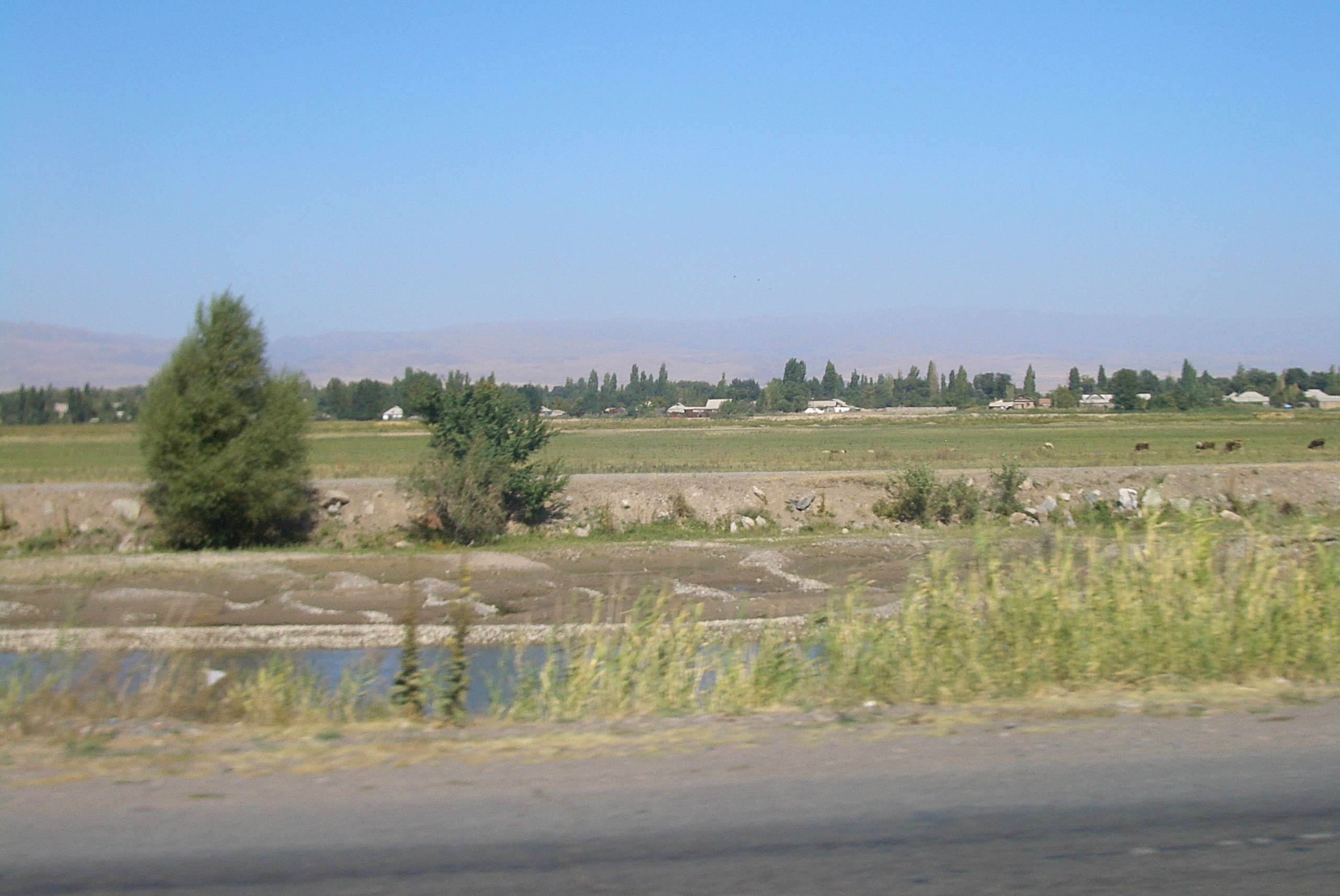 Looking across the Chu from Kyrgyzstan's Chuy Province (the northern Bishkek-Tokmok highway) into Kazakhstan's Zhambyl Province (Korday District).